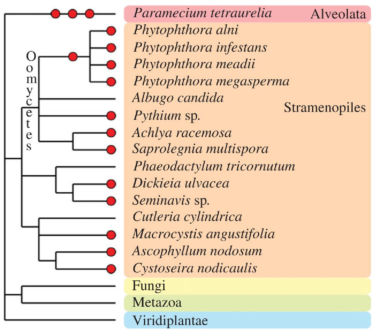 Inferred polyploidy and reticulate evolution in fungi. Red circles indicate suspected polyploidy, blue squares indicate hybrid origin.